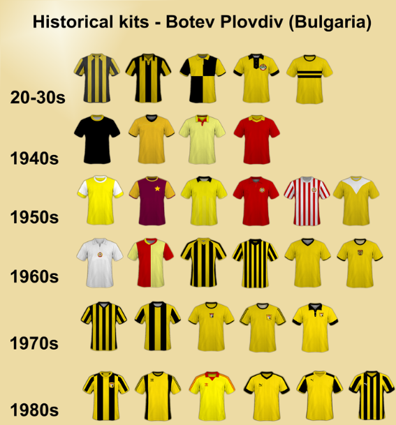 bpfc-kits